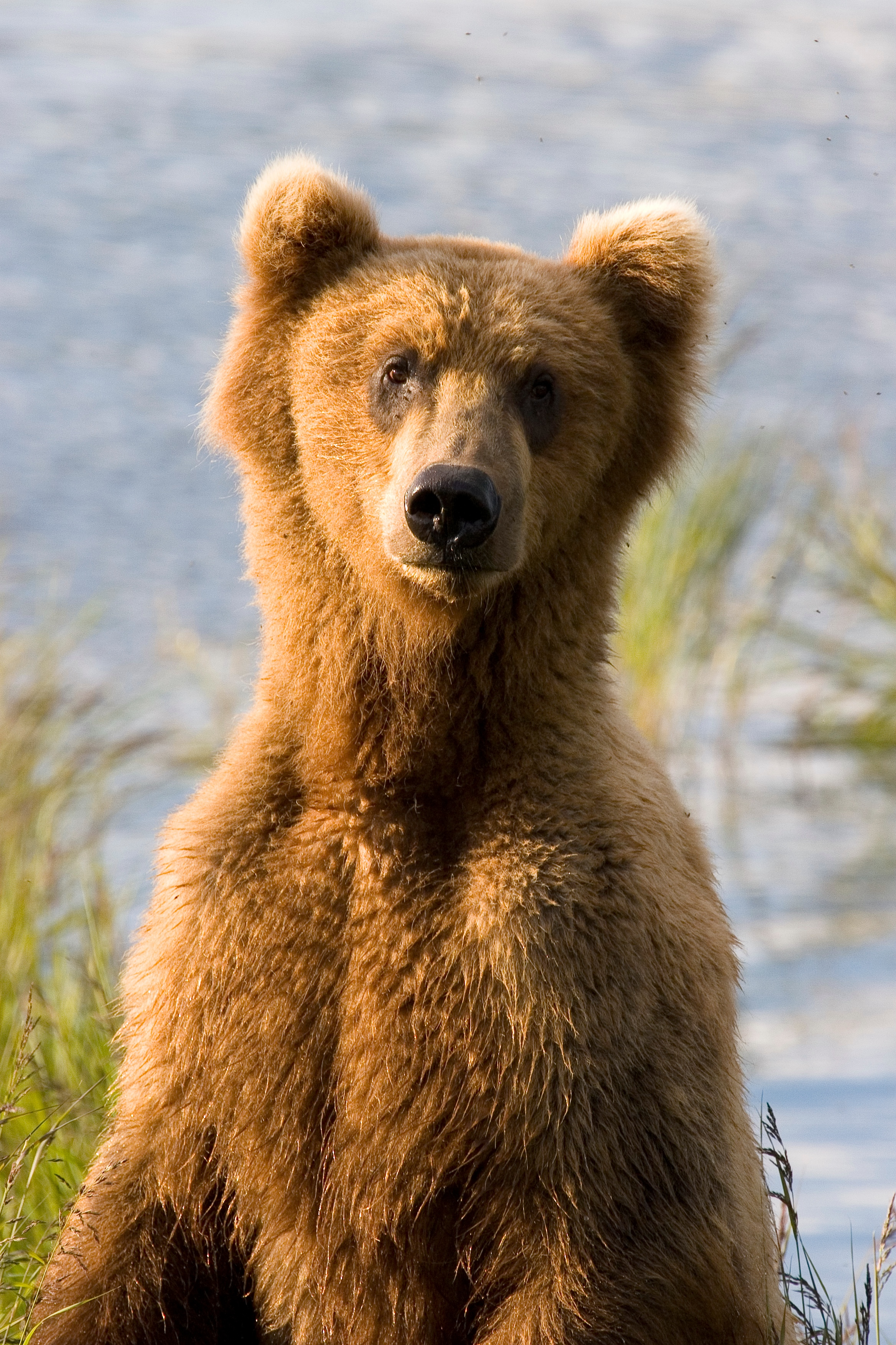 A closeup of a brown bear (Ursus arctos) in Alaska.Alaskan Life (series)